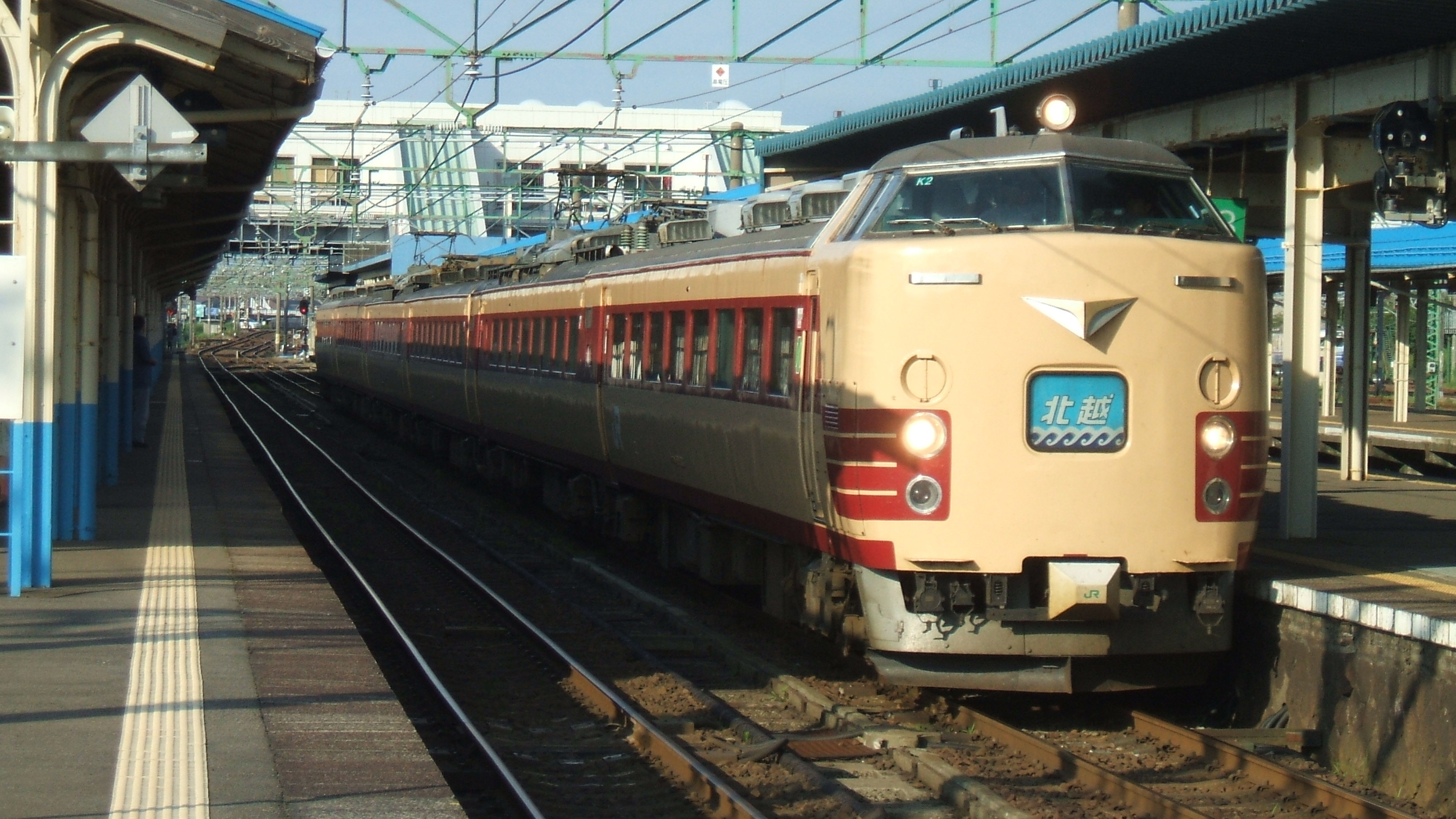 JR East 485 series EMU on a "Hokuetsu" limited express service at Naoetsu Station